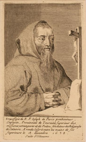 Portrait of François Le Clerc du Tremblay (Pere Joseph)